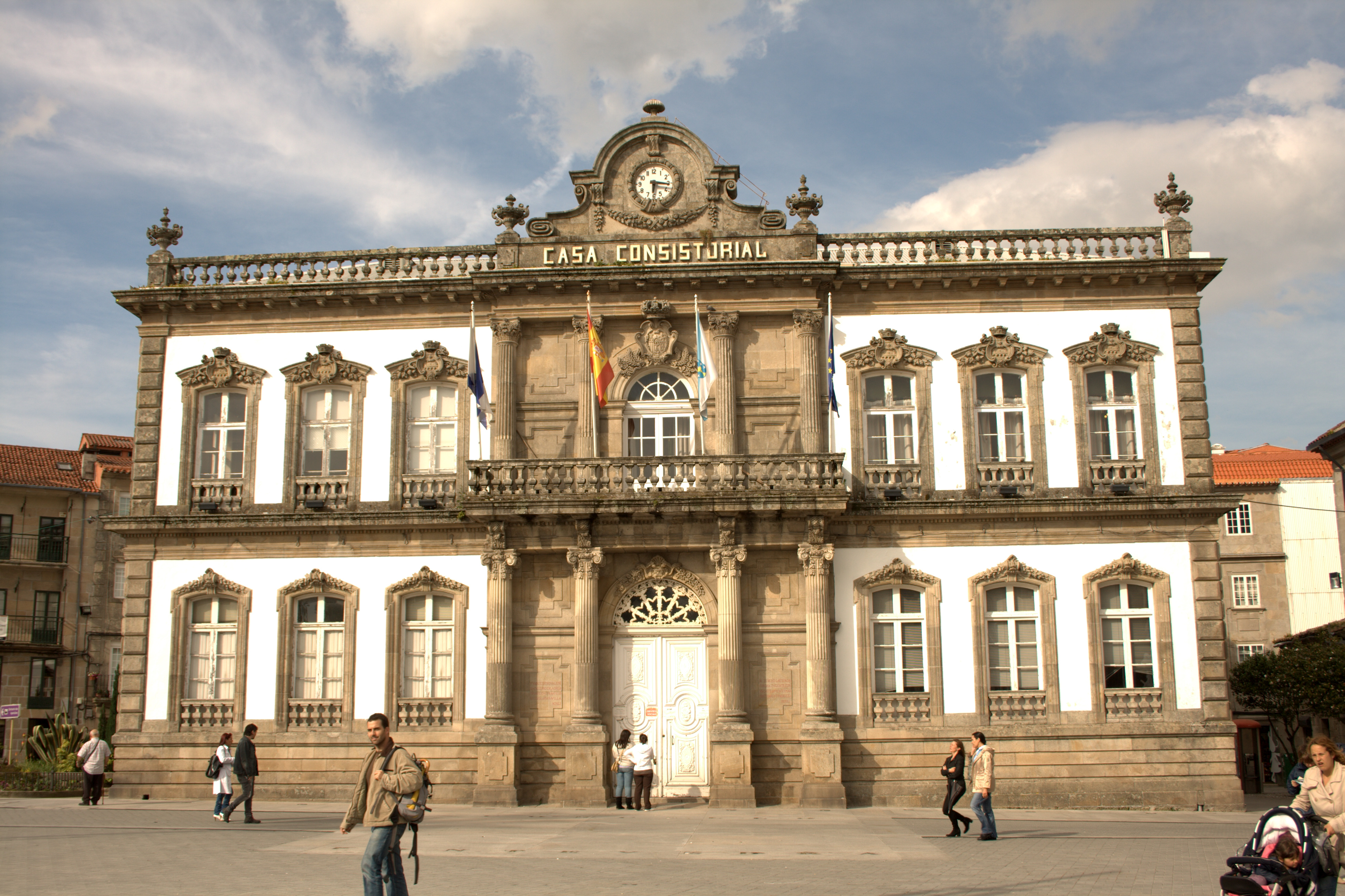 Town Hall of Pontevedra.